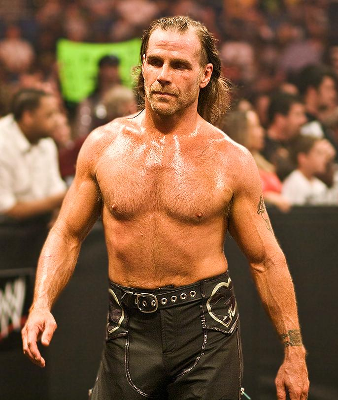 Shawn Michaels at Raw 800th episode